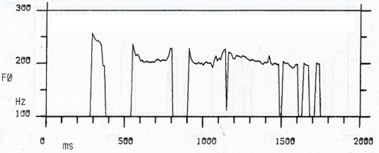 F0 analysis (1984)